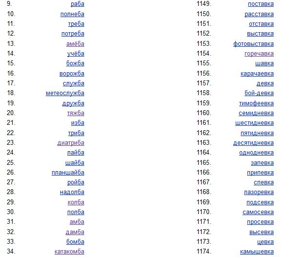 Abstract from the Reverse dictionary of the Russian language